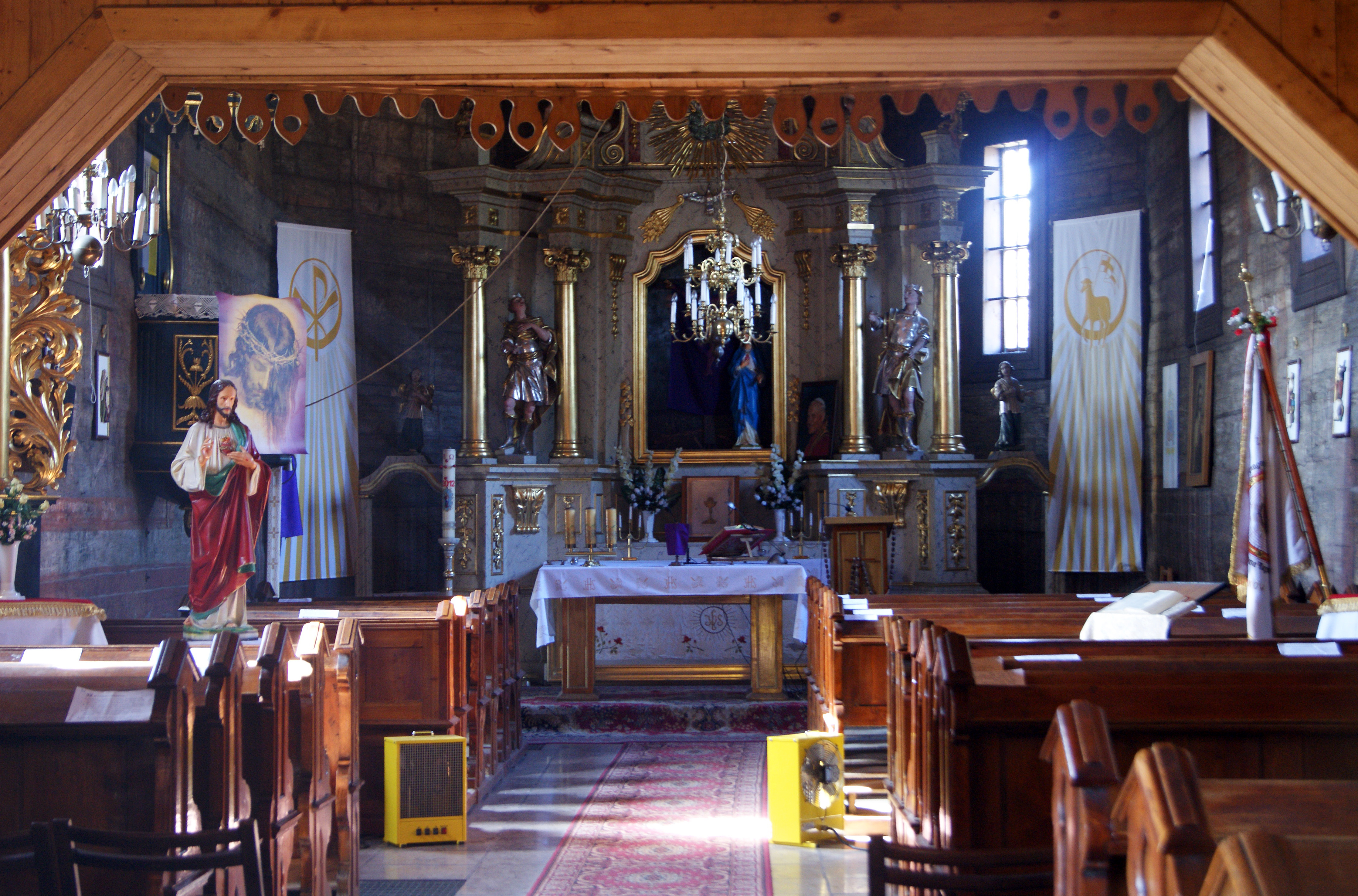 St John the Baptist and Our Lady of the Scapular Church (interior), 19 Wankowicza street, Nowa Huta, Krakow, Poland